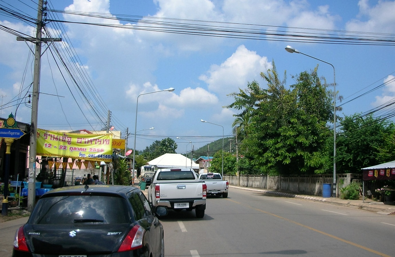 Entering Dan Makham Tia town from the south.